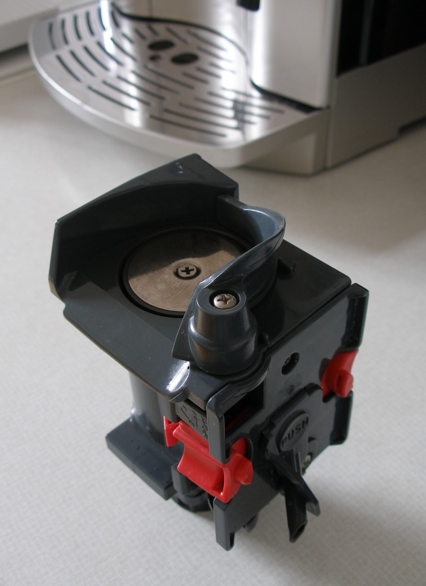 Brew group of a DeLonghi automatic espresso maker / Brühgruppe eines DeLonghi-Kaffeevollautomaten